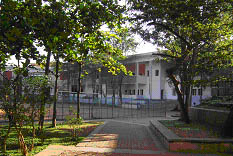 pic of my school taken by me - Mallya Aditi International School - Part of the school campus